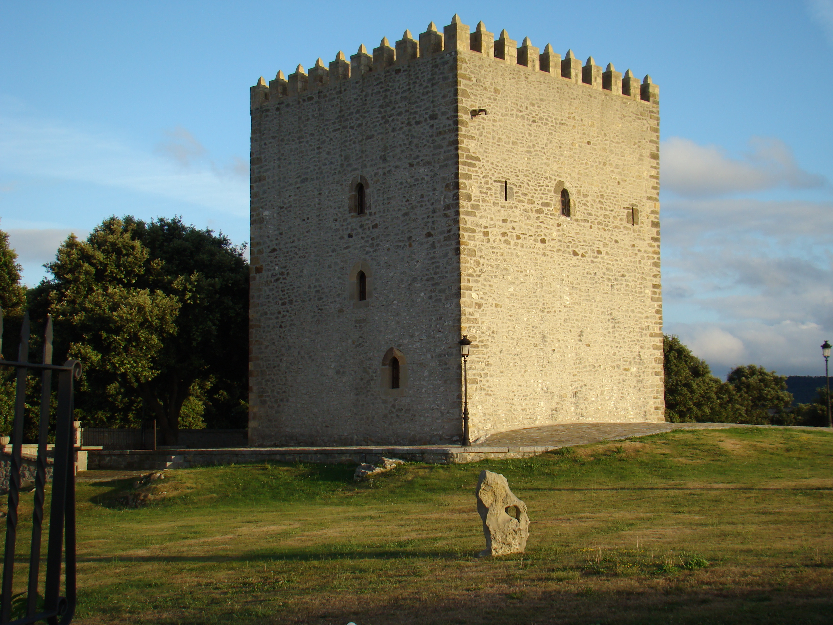 The Tower of Cabrahigo, also called of the Constable and El Torrín, is a cantabrian medieval tower located in the suburb of Gracedo, in Isla Cantabria, Spain. It belonged to the Velarde family during the 15th century.